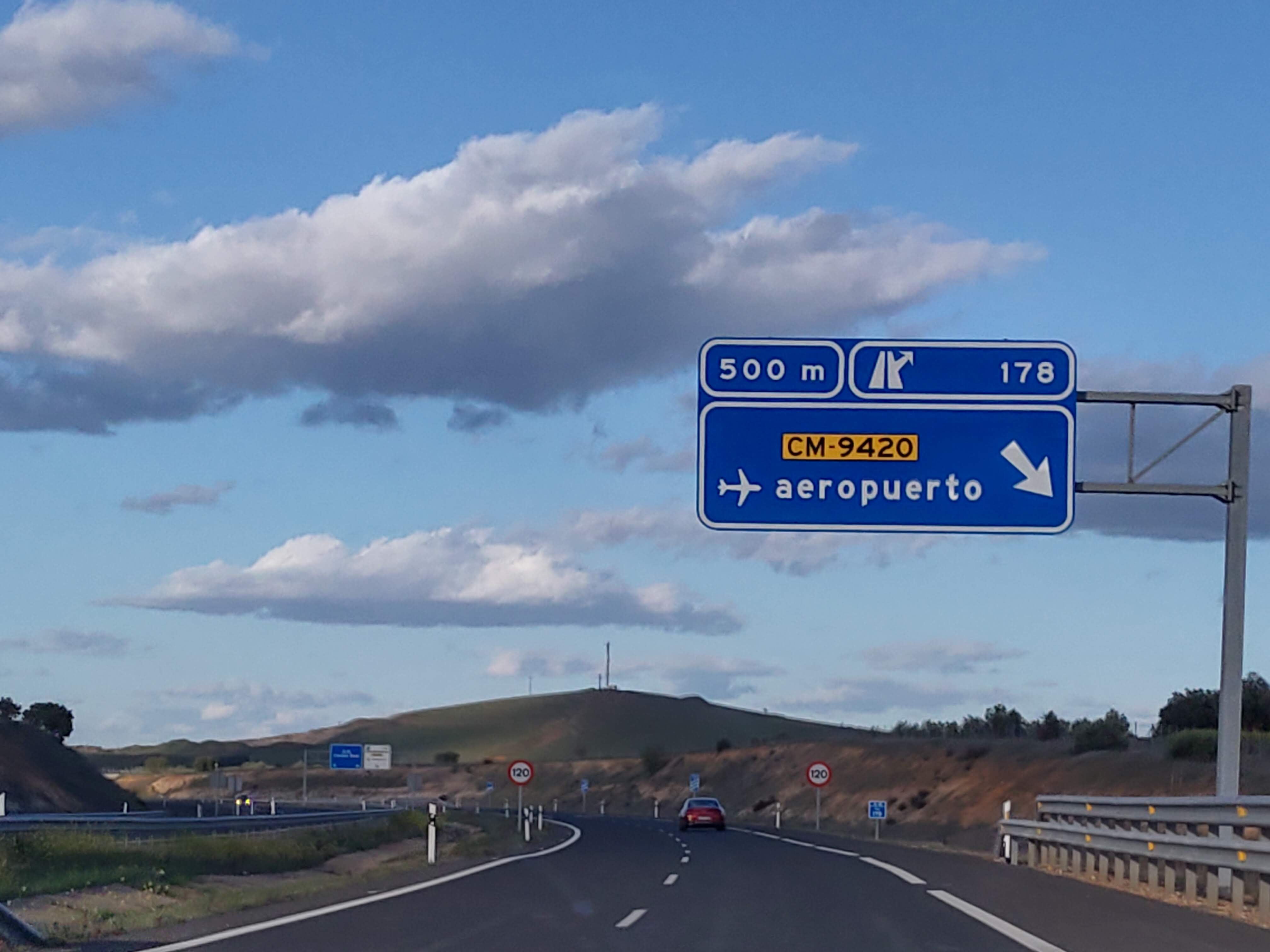 Señal en A-41, salida al Aeropuerto Ciudad Real